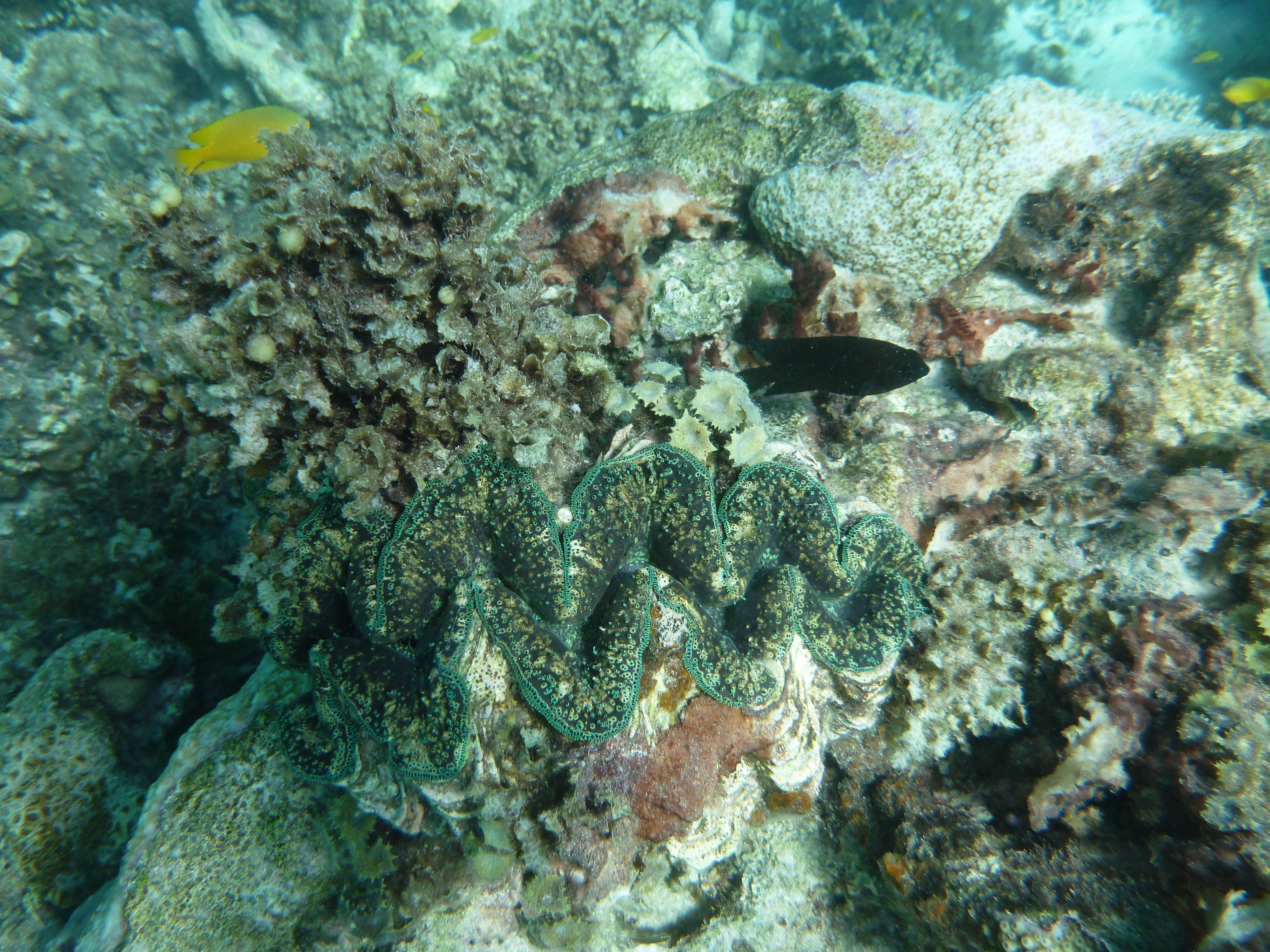 Giant Clam 2